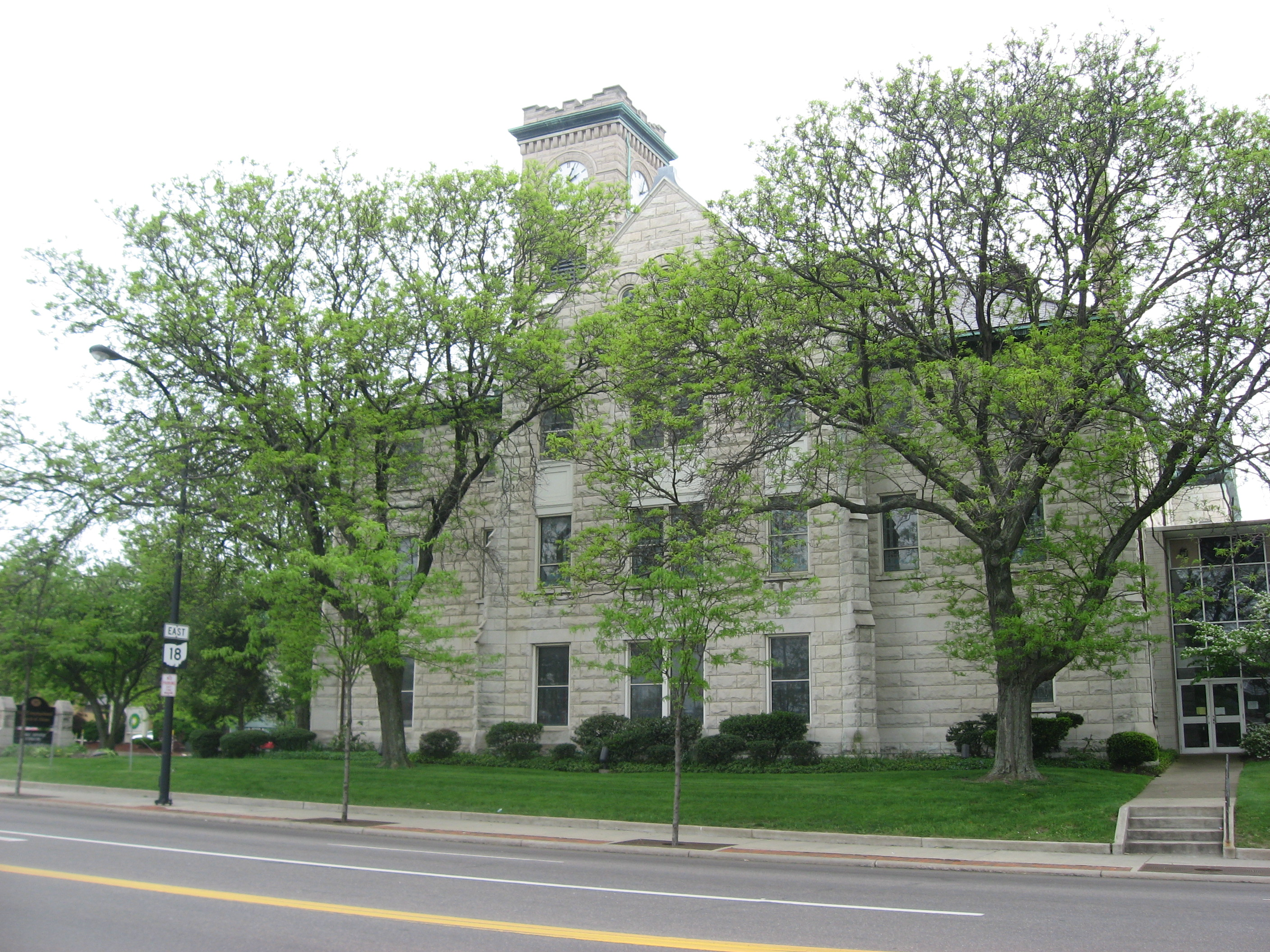 Front of First Congregational Church, located at 292 E. Market Street (State Route 18) in Akron, Ohio, United States. Built in 1910, it is listed on the National Register of Historic Places.